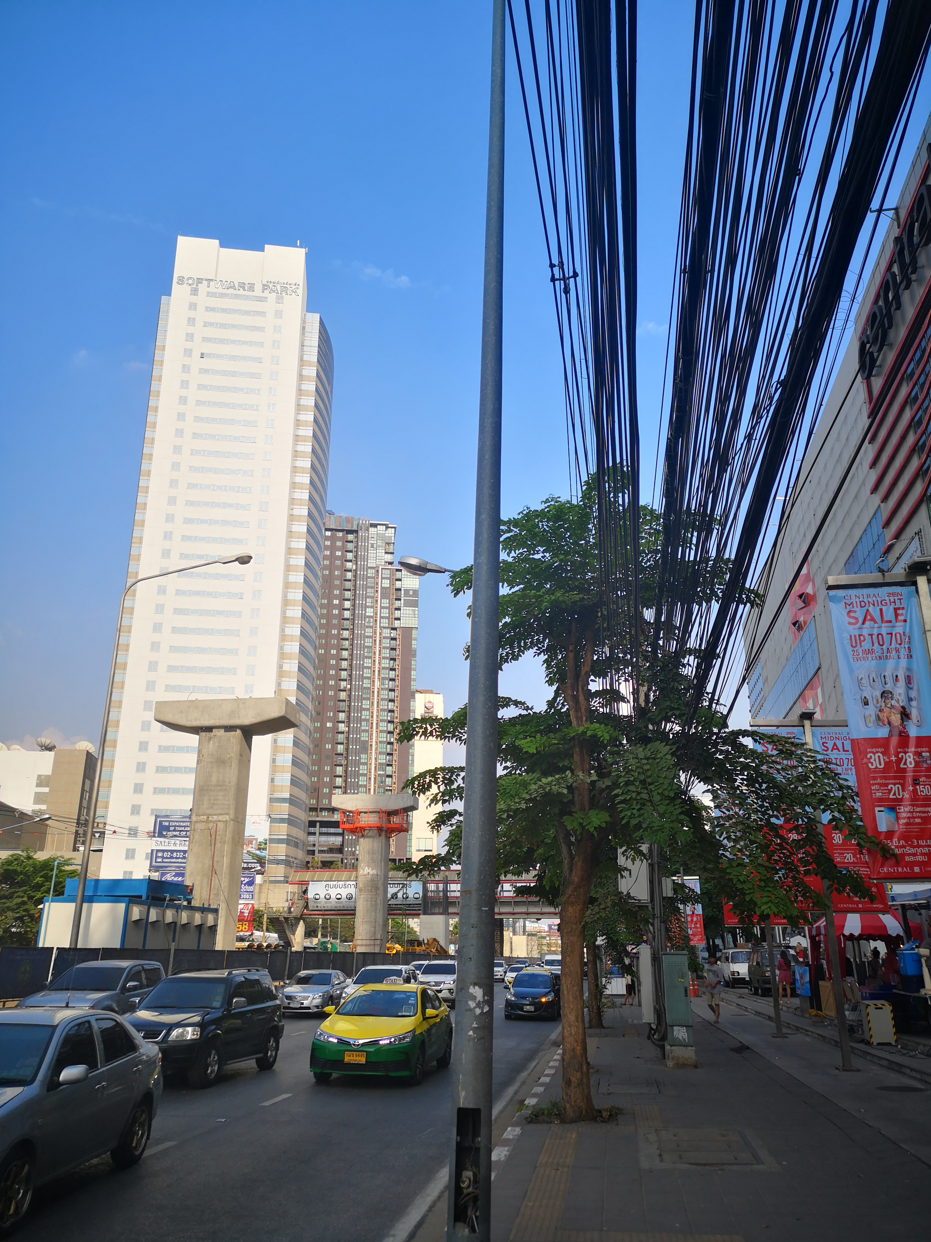 Thanon Chaeng Watthana